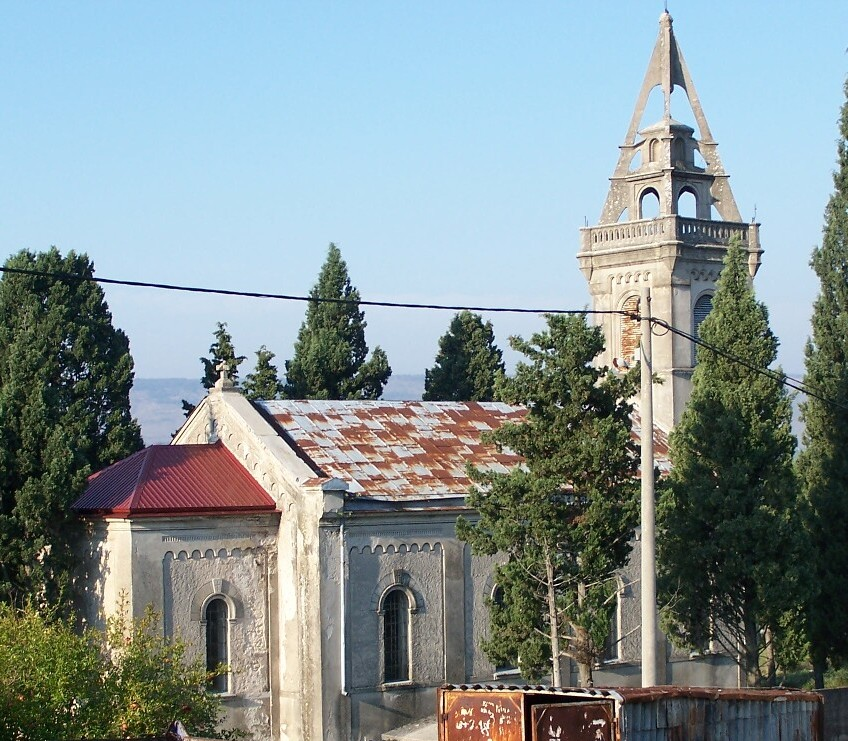 Blagaj catholic church